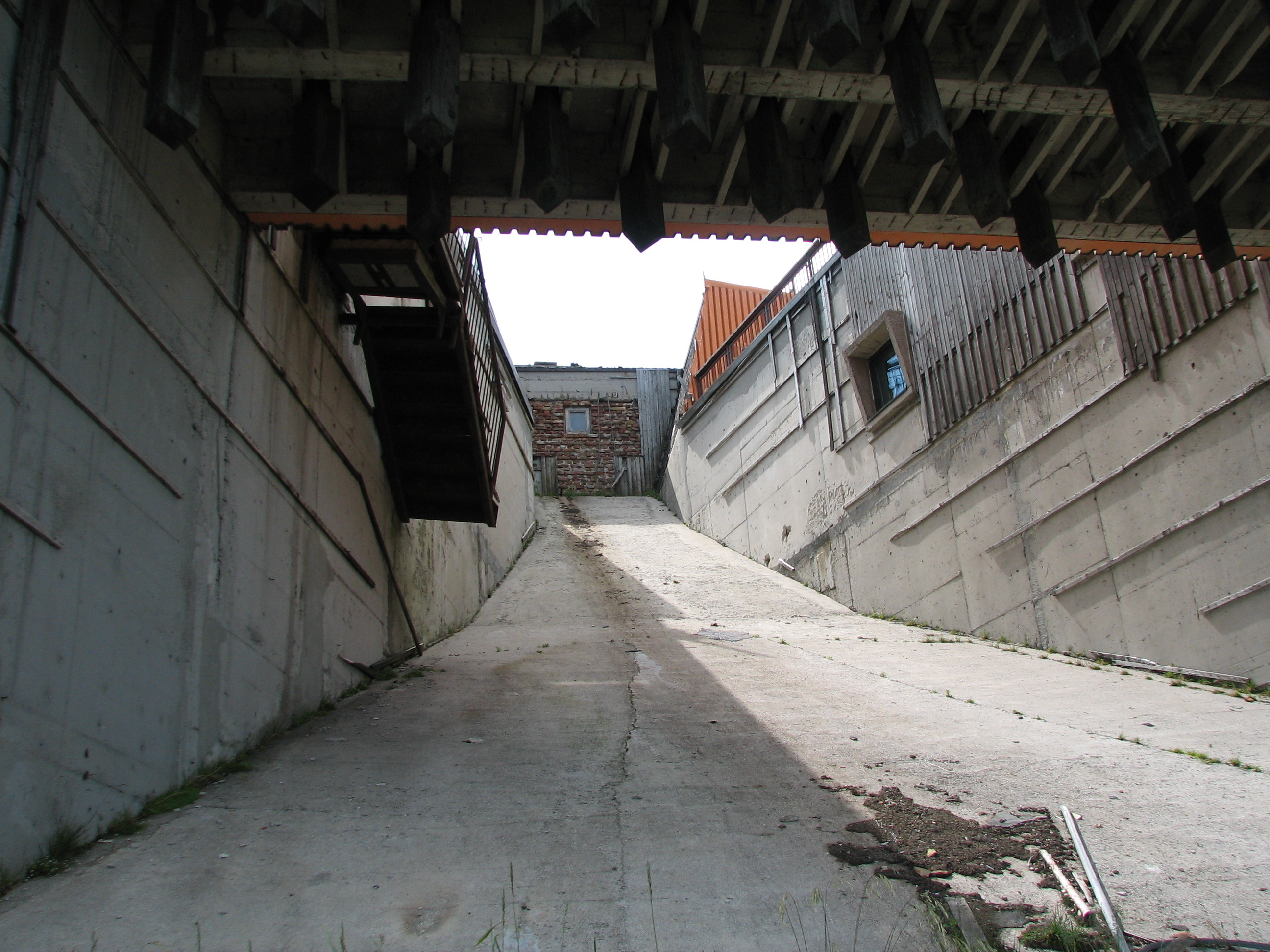 The first few metres had to be added artifically to make the course the right length